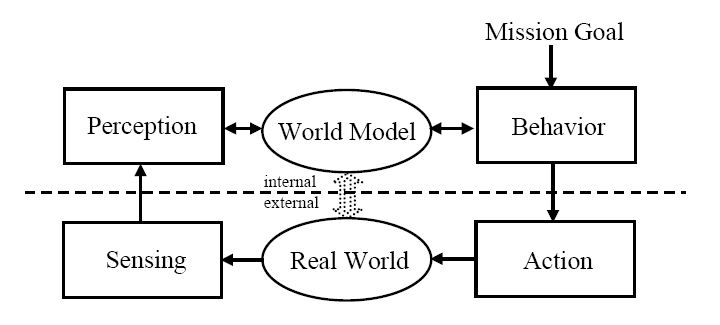 The fundamental structure of a 4D/RCS control loop. An internal world model of the external world provides support to both perception and behavior. Sensors measure properties of the external world. Perception extracts the information necessary to keep the world model current and accurate from the sensory data stream. Behavior uses the world model to decompose goals into appropriate action.